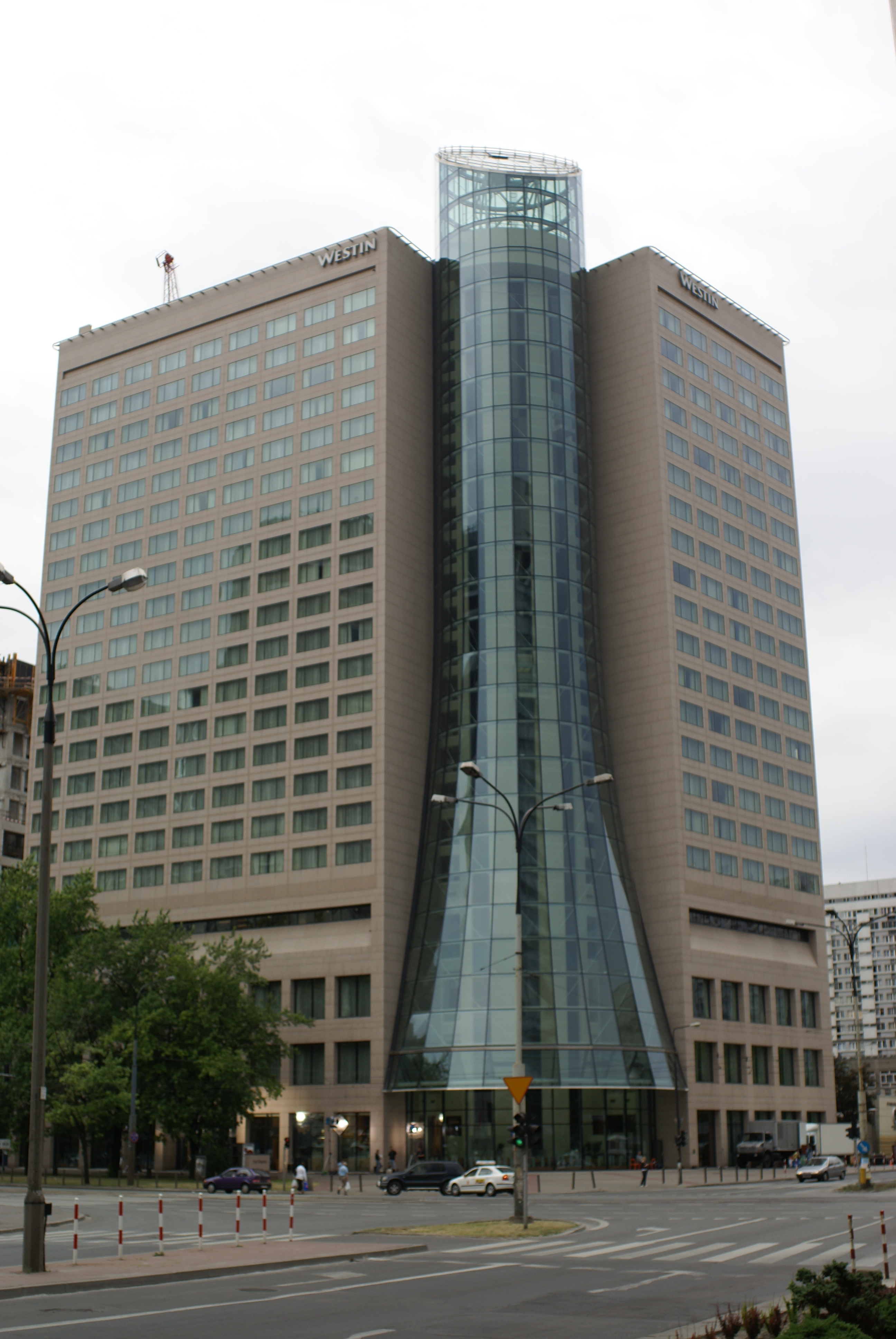 The Westin Warsaw, Warsaw, Poland